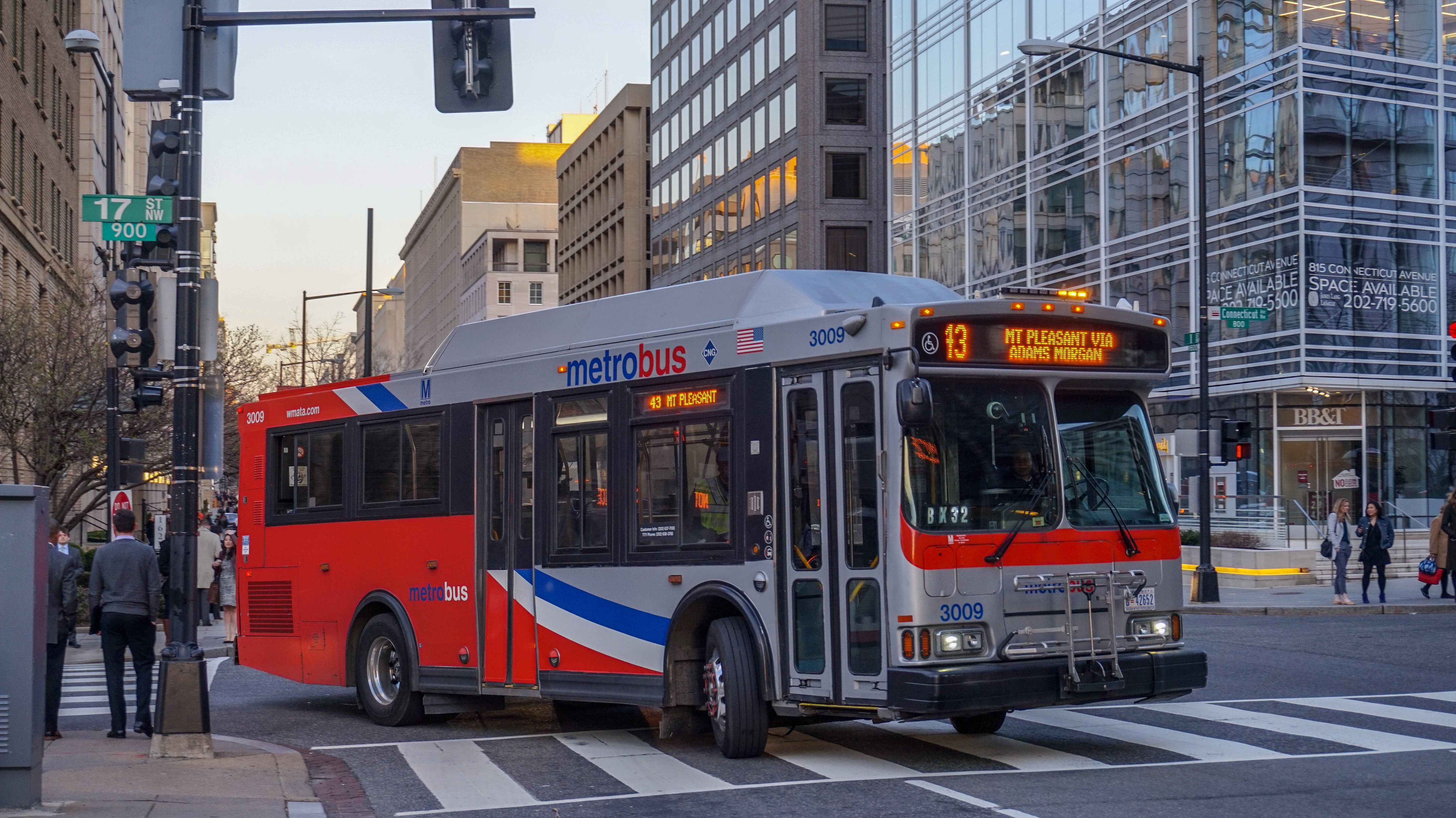 Here is WMATA 2006 Orion VII CNG 30 ft at Farragut Square